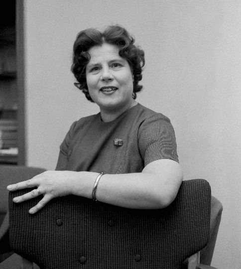 Photograph of the Finnish opera vocalist Anna Mutanen (1914–2003).